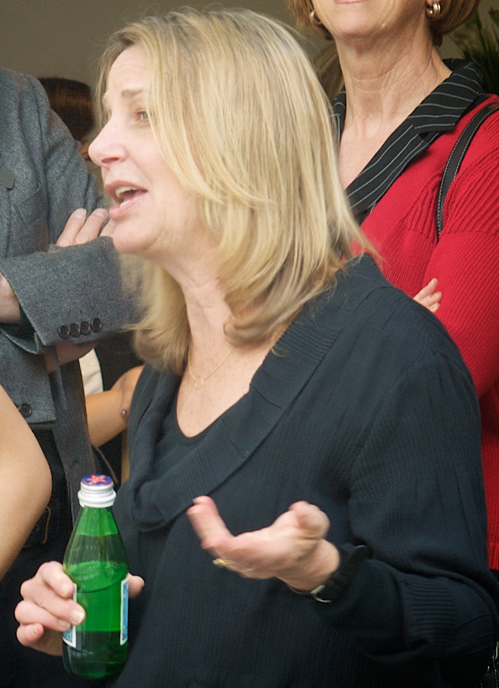 Paula Scher in "Take a Closer Look" speaker event at the GDMA Degree Show in 2010